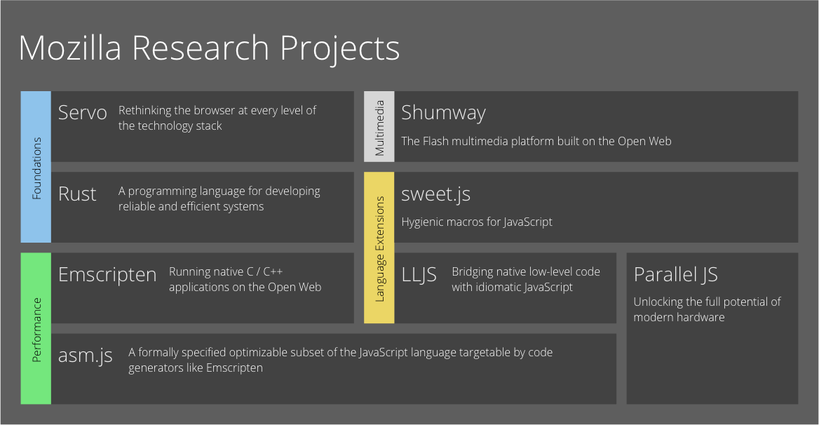 Mozilla Research projects banner.